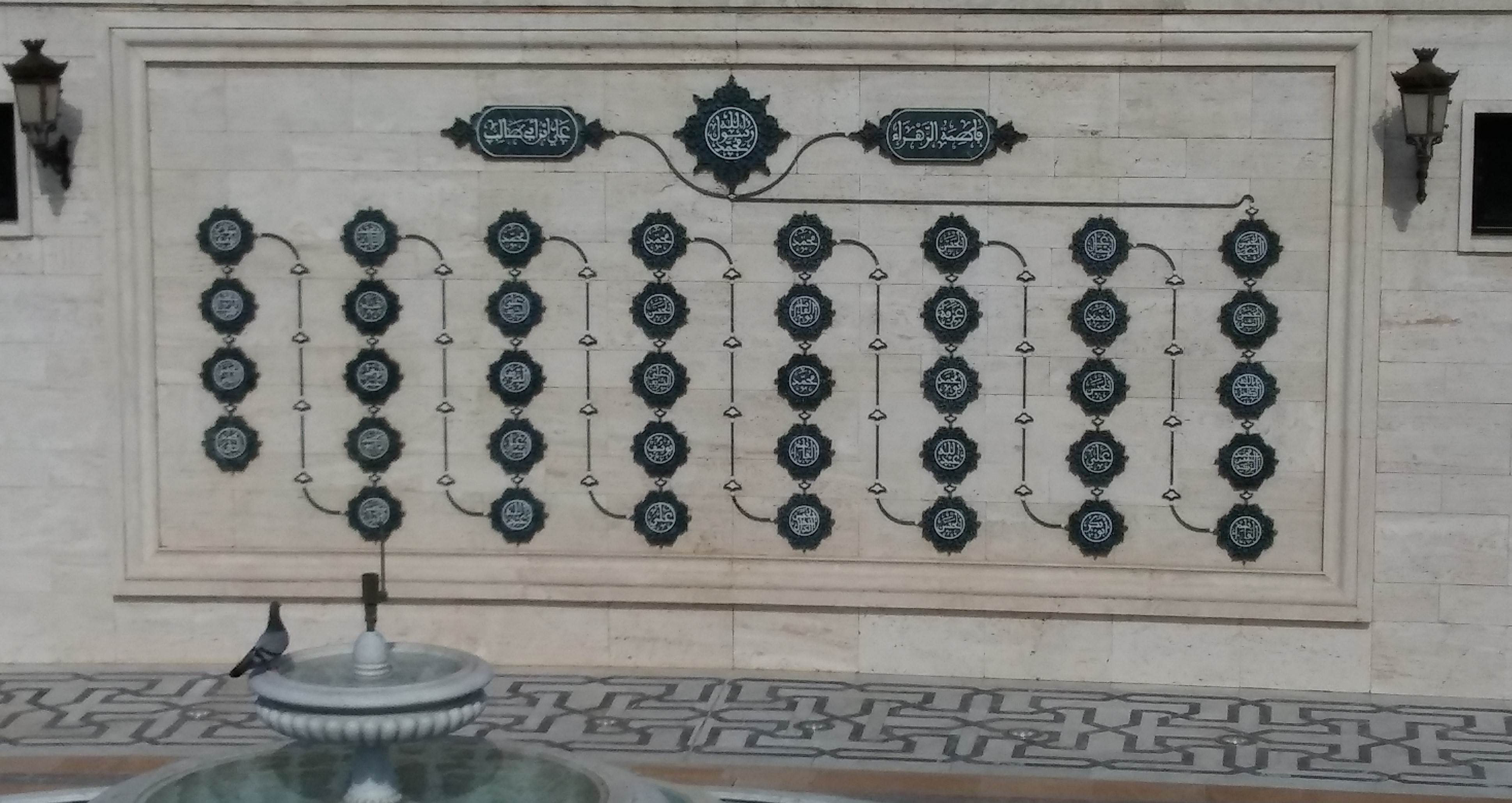 Family tree of the Alaouite dynasty in front of Hassan Tower in Rabat.